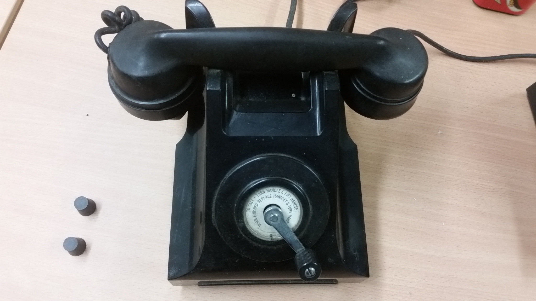 Australia - the previous name of Telstra- Post Master General Telephone -1950(1 device) require battery for power